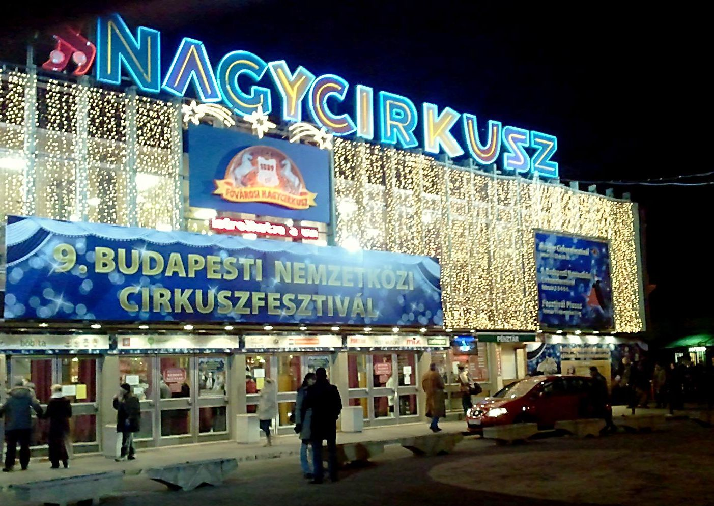 International Circus Festival of Budapest